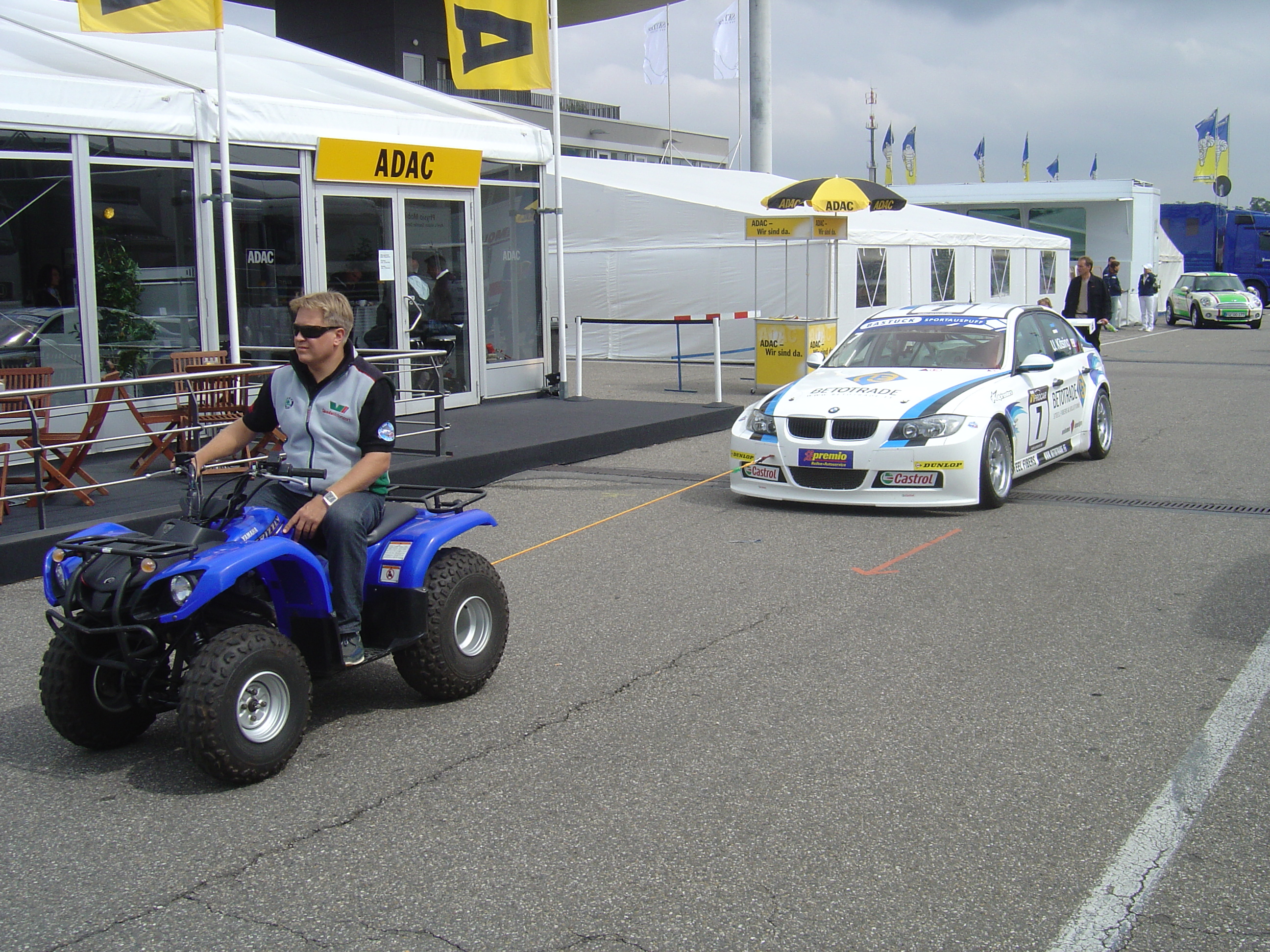 A quad is towing the BMW 320si race car of Urmas Kitsing (ADAC PROCAR): the photo was taken during 2009's ADAC GT Masters race weekend at Hockenheim